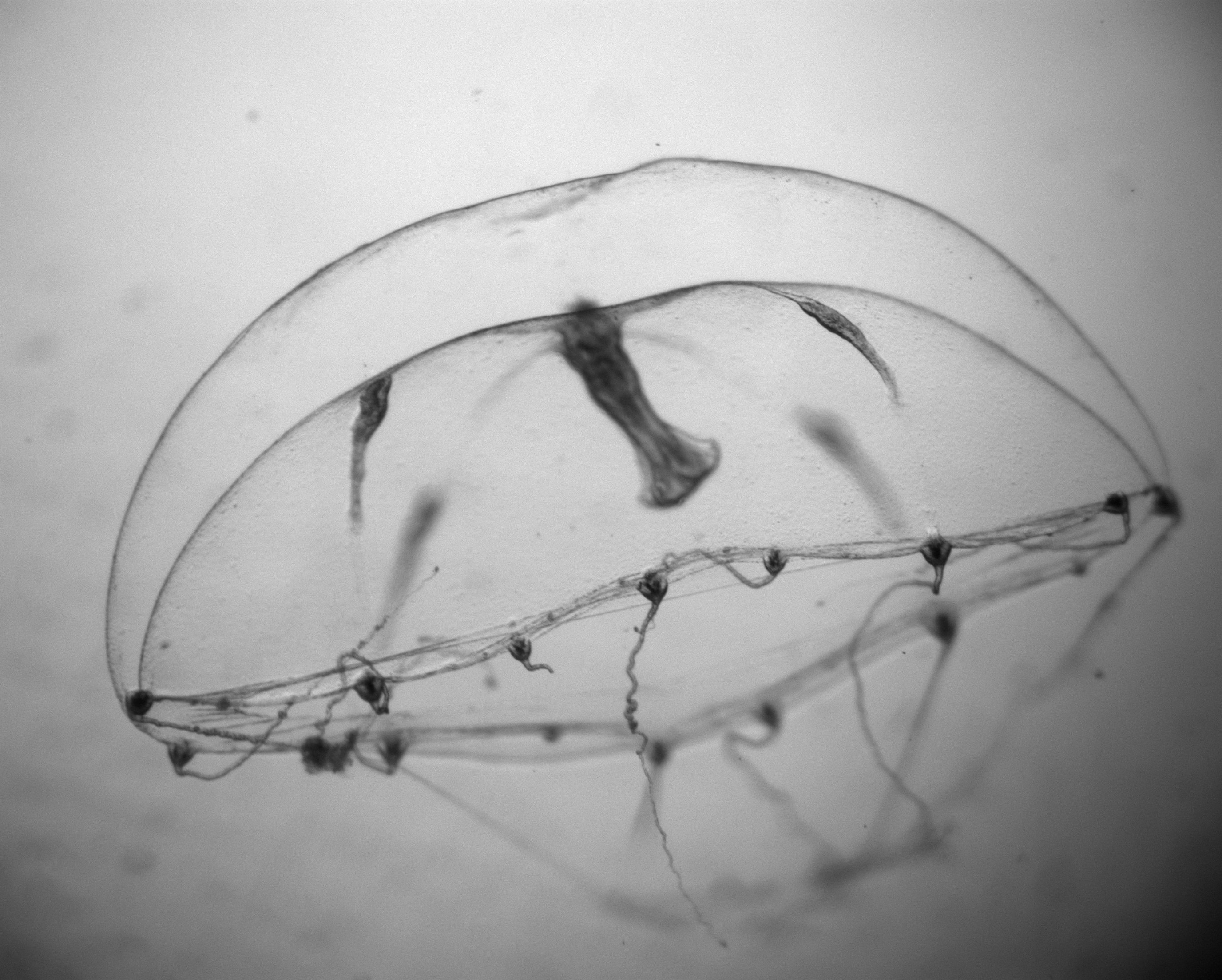 adult C. hemisphaerica, photo captured from side